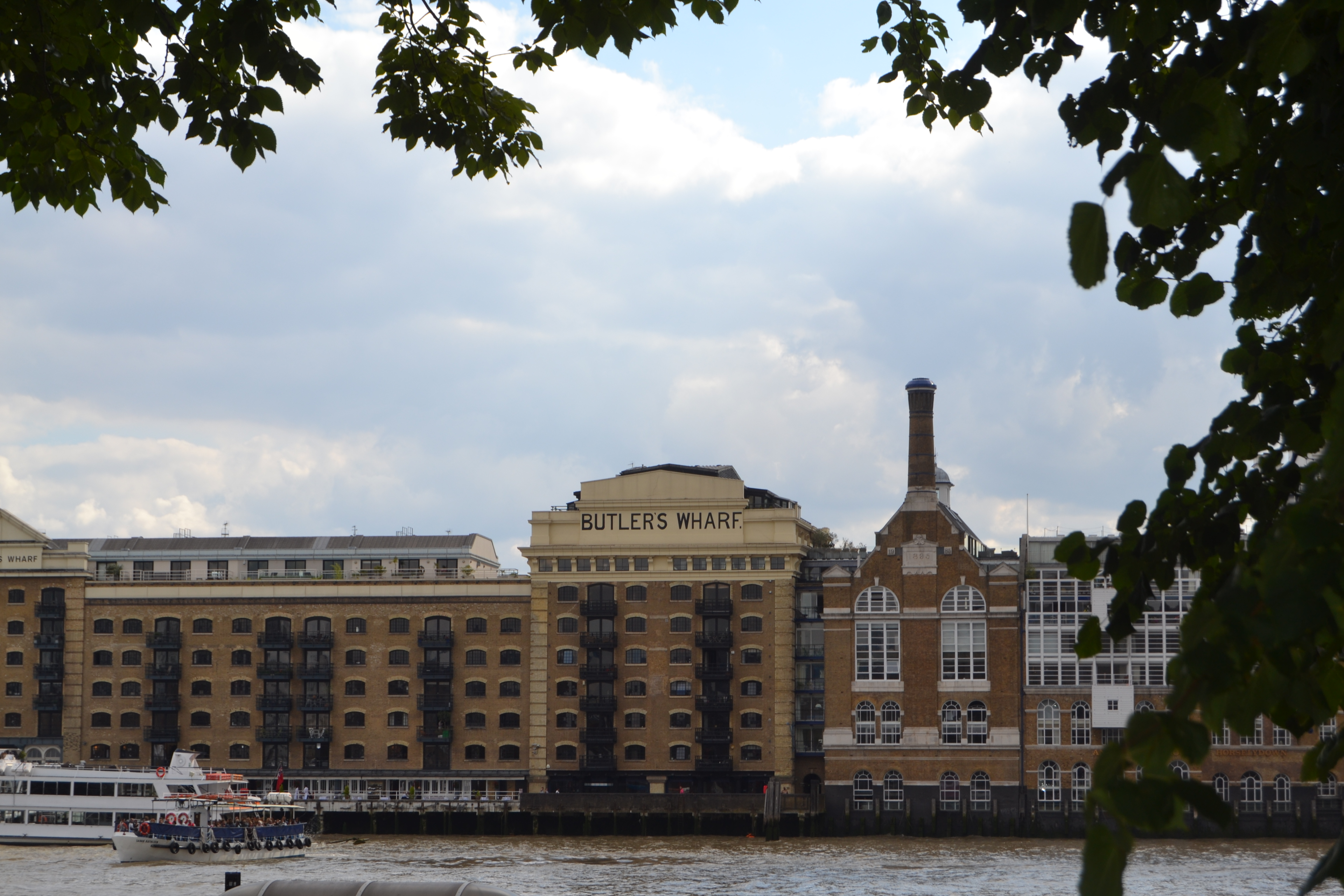 Butler's Warf, London, UK.